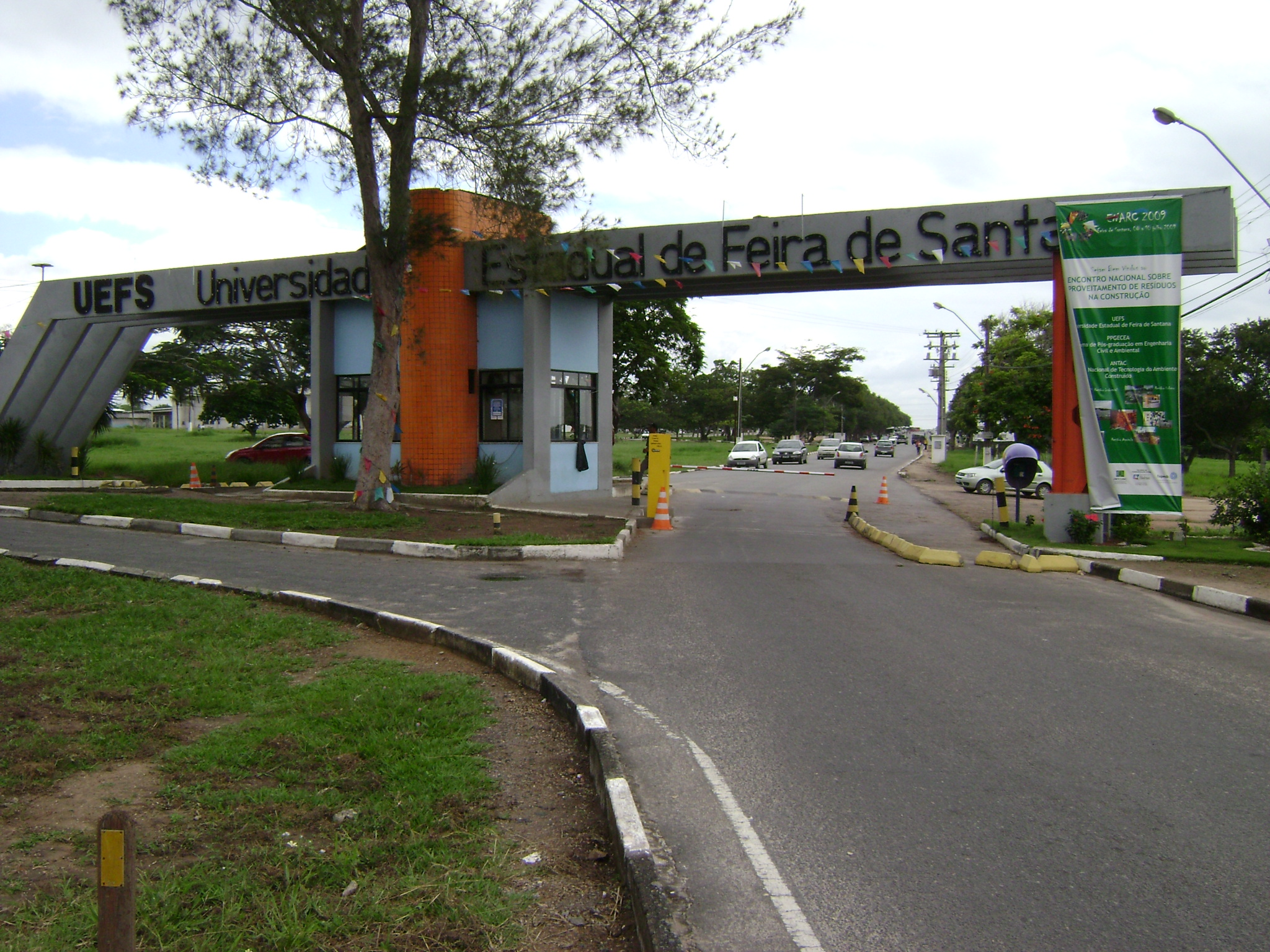 Entrance of Universidade Estadual de Feira de Santana, in Feira de Santana, Bahia, Brazil.